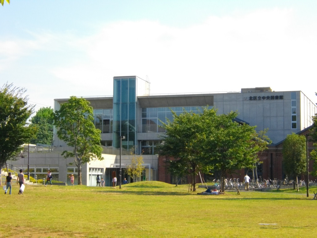 Kita-Ku Central Library